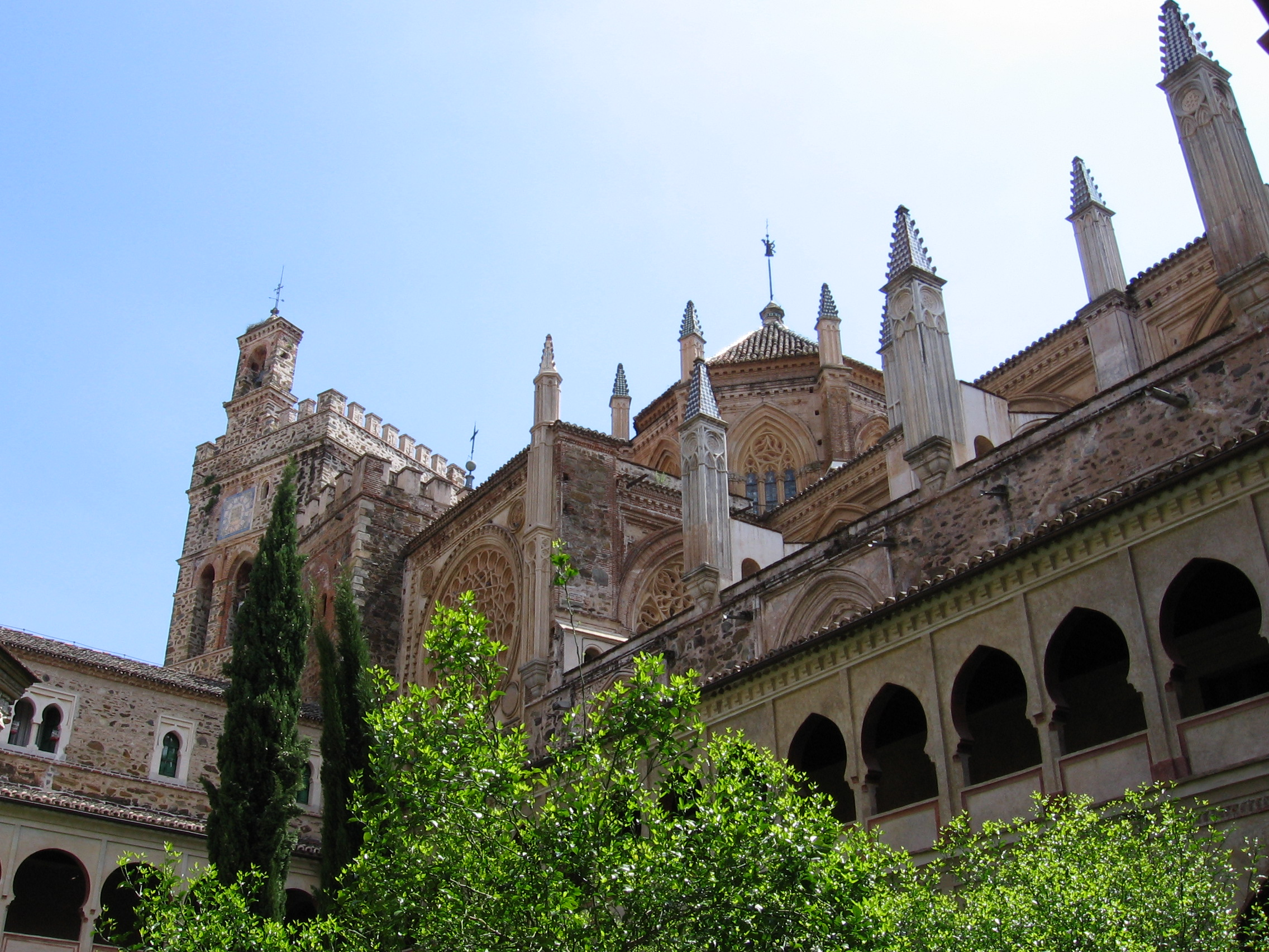 Monastery Guadalupe, Extremadura, Spain